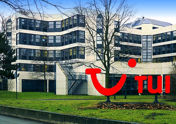 TUI Headquarter in Hannover, Lower Saxony, Germany